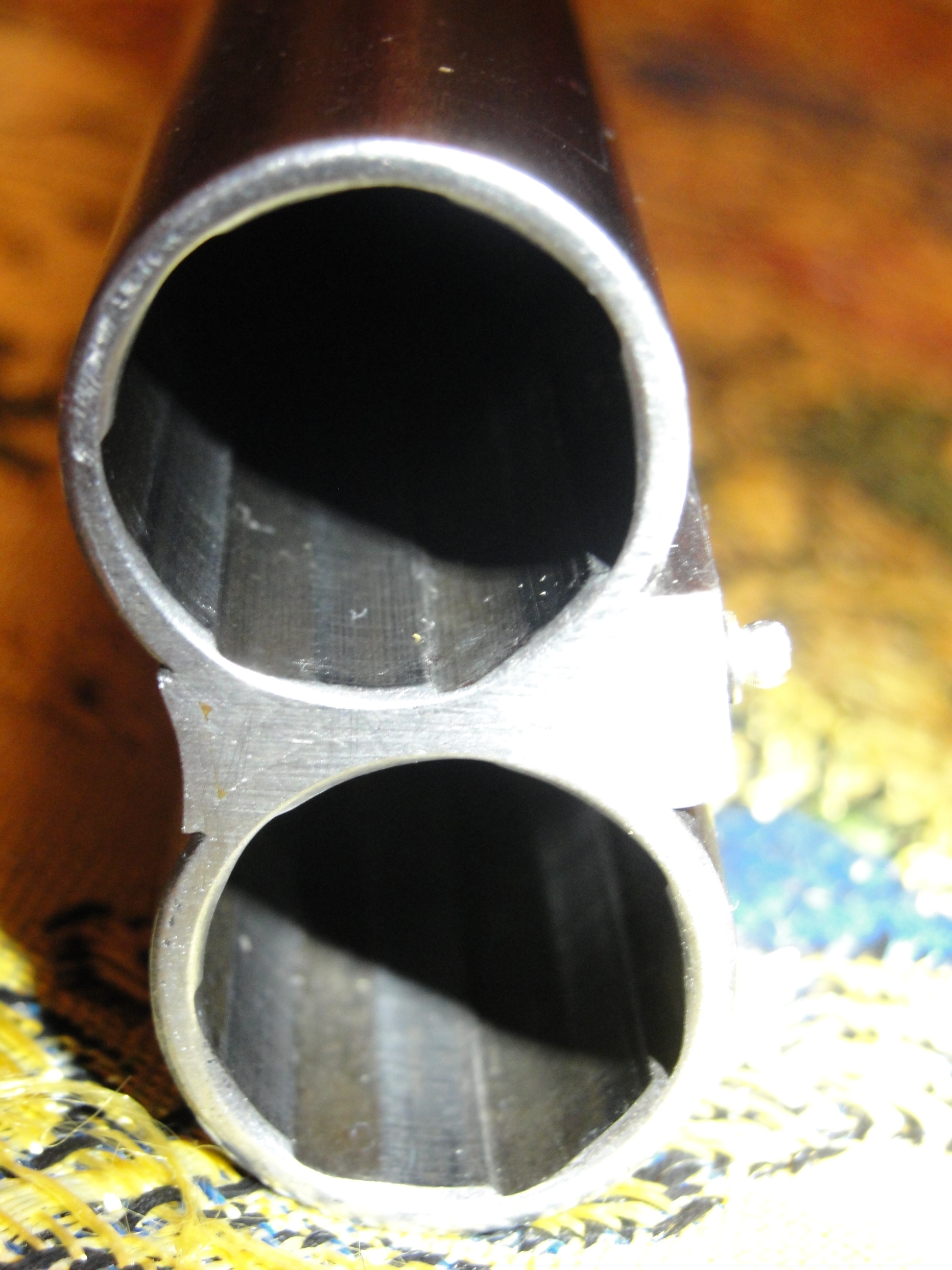 Muzzle of a Paradox gun, 12th Bore